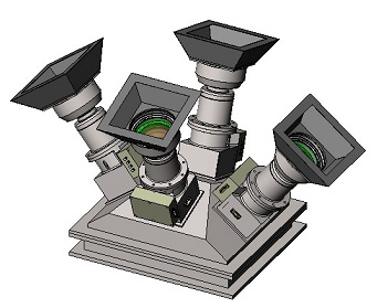 The experiment CDE from the AIM-Satellite